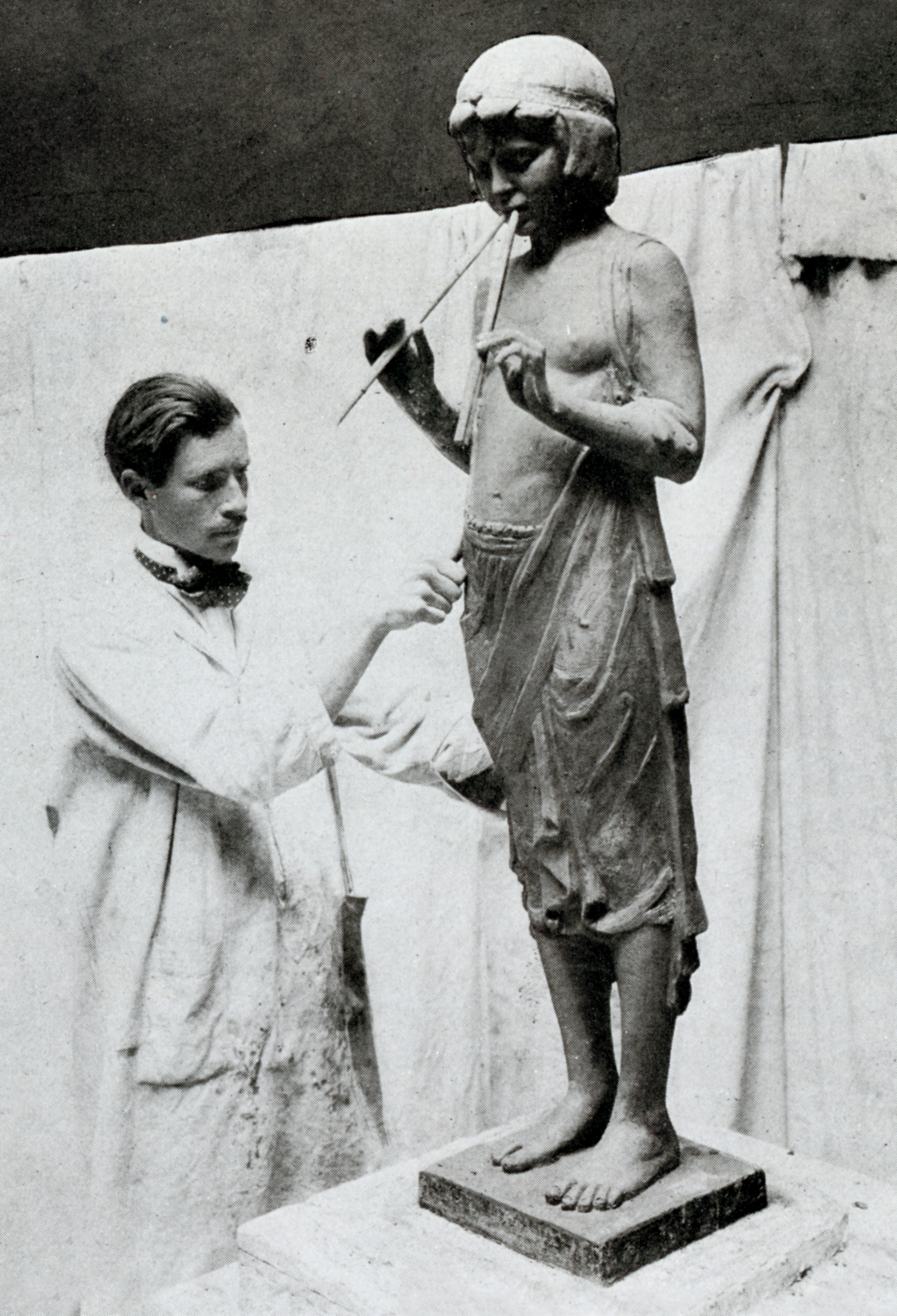 Burt W. Johnson working on his sculpture for Grauman's Theatre in Downtown Los Angeles, California; the sculpture is very similar in size and design to Piping Pan [c.1882, cast 1914] by Johnson's colleague and brother-in-law, Louis St Gaudens (1854-1913), in the collection of the Metropolitan Museum of Art, New York